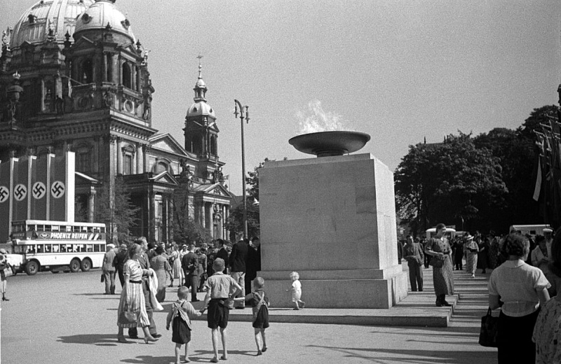 Olympic Fire in Berlin, 1936 author: Josef Jindřich Šechtl Uploaded with approval of inheritors of the copyright